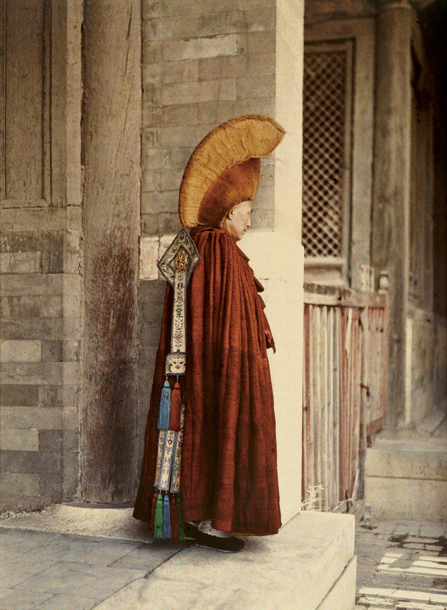 Buddhist lama in Beijing, China, 1913. Autochrome from Albert Kahn's Archives de la planète.